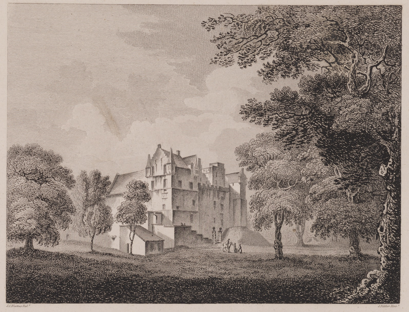 Plate X/b - John Claude Nattes made drawings of suitable scenes on the spot; etchings are by James Fittler. - John Claude Nattes made drawings of suitable scenes on the spot; etchings are by James Fittler.